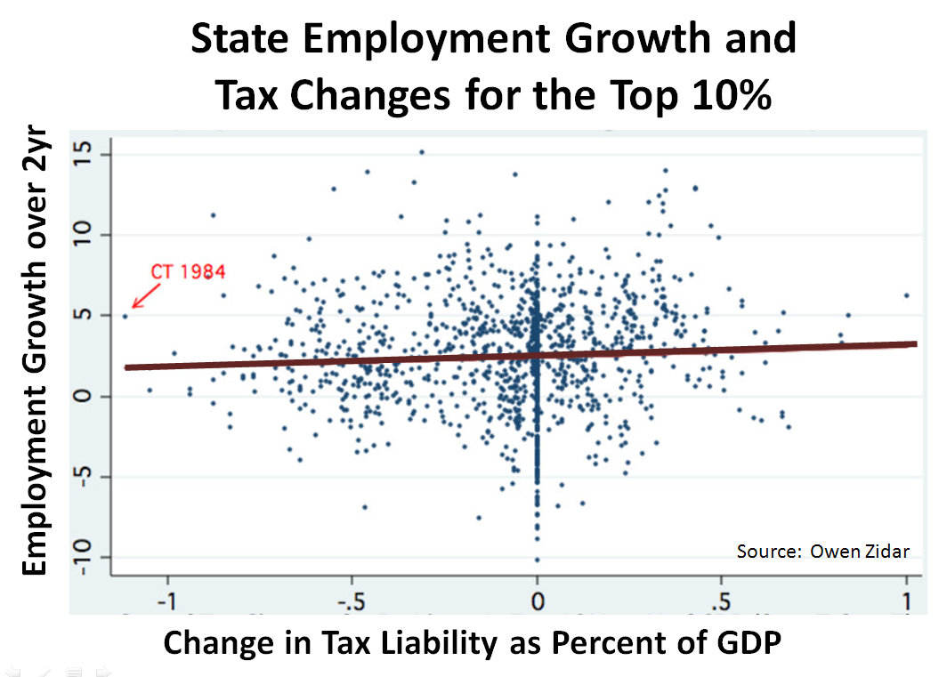 Historical state employment growth and tax changes for the top 10% income earners in the United States.